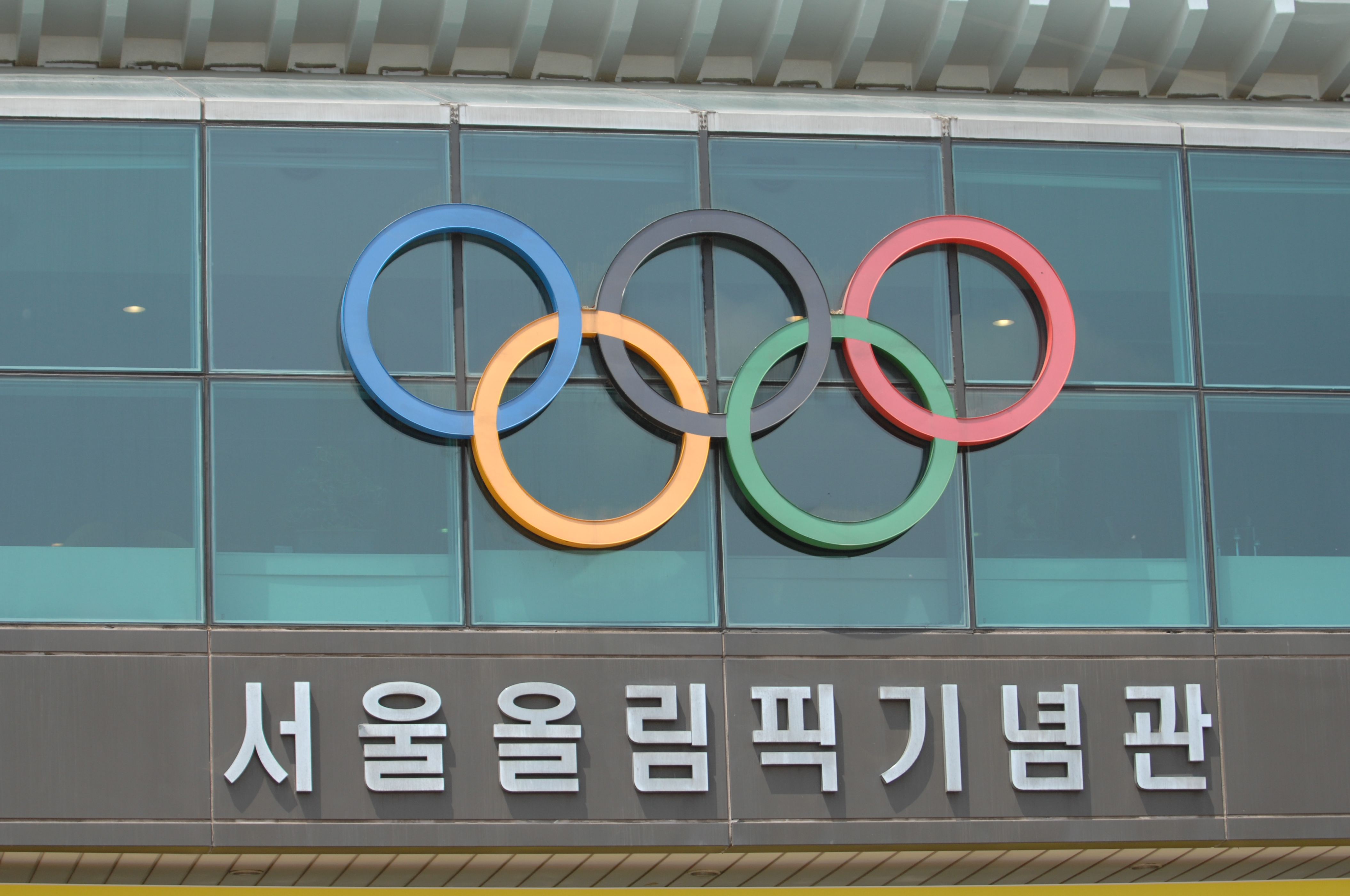 Olympic Park - Seoul, South Korea 090503